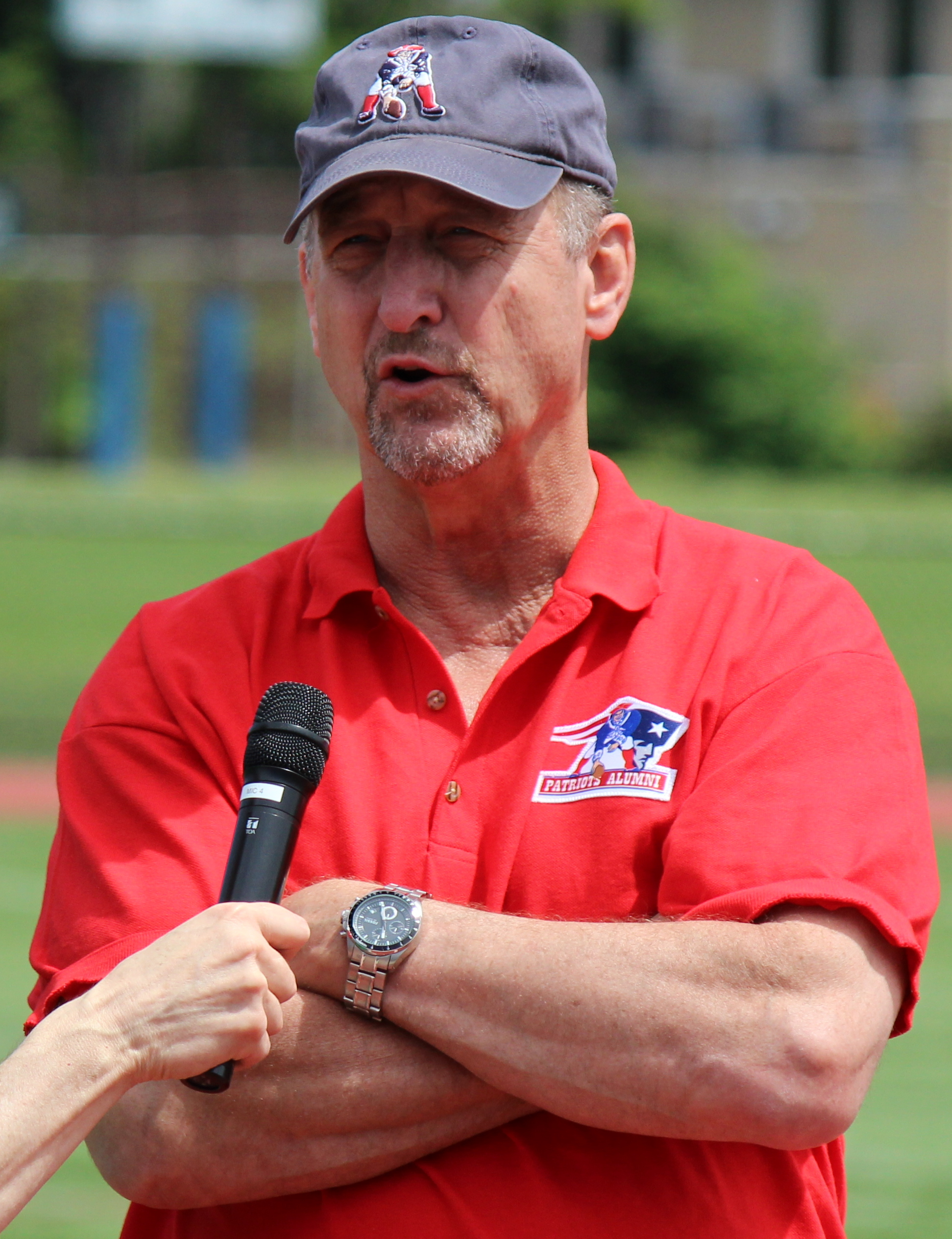 Chuck Wilson interviews Steve Grogan in 2015 in Worcester, Massachusetts.